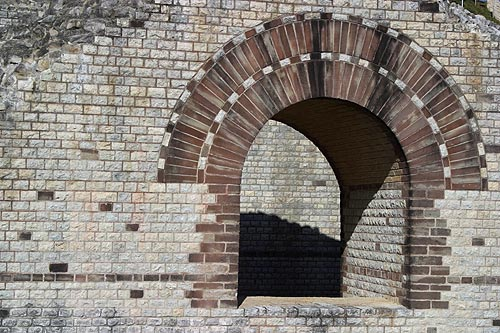 Roman theater at Augst (Augusta Raurica), Basel-Land, Switzerland